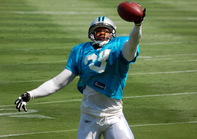 Carolina Panthers 2008 Fan Fest: 23 CB Dante Wesley doing drills with the defense. Visit